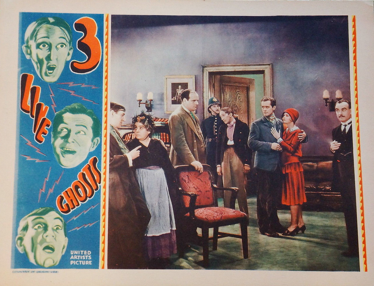 Lobby card for the American comedy film Three Live Ghosts (1929) with Joan Bennett, Claud Allister, Charles McNaughton, Beryl Mercer, Robert Montgomery, Harry Stubbs.